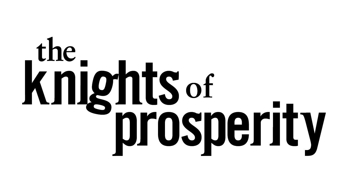 Logo for 2006 ABC series "Knights of Prosperity." Category:Television program logos History of Image:KOP Logo on-airBLK.jpg 2008-09-19T01:35:18Z MBisanz (Talk | contribs) (149 bytes) (changing license to :en::Template:PD-textlogo|PD-textlogo using :en:User:AWeenieMan/furme|FURME ) 2008-09-17T23:22:11Z FairuseBot (Talk | contribs) (239 bytes) (Image is not compliant with :en:WP:NFCC|the non-free content rules ) 2007-07-20T10:58:16Z Cydebot (Talk | contribs) (138 bytes) (Robot - Renaming non-free template "Tv-program-logo" per :en:Wikipedia:Non-free content/templates| .) 2007-01-24T06:29:14Z Guroadrunner (Talk | contribs) (/* Licensing */ - fix) 2006-09-21T20:06:06Z Sannse (Talk | contribs) (change to fair use - logo) 2006-09-21T17:03:23Z Winterja (Talk | contribs) (Logo for 2006 ABC series "Knights of Prosperity." Tv-program-logo )